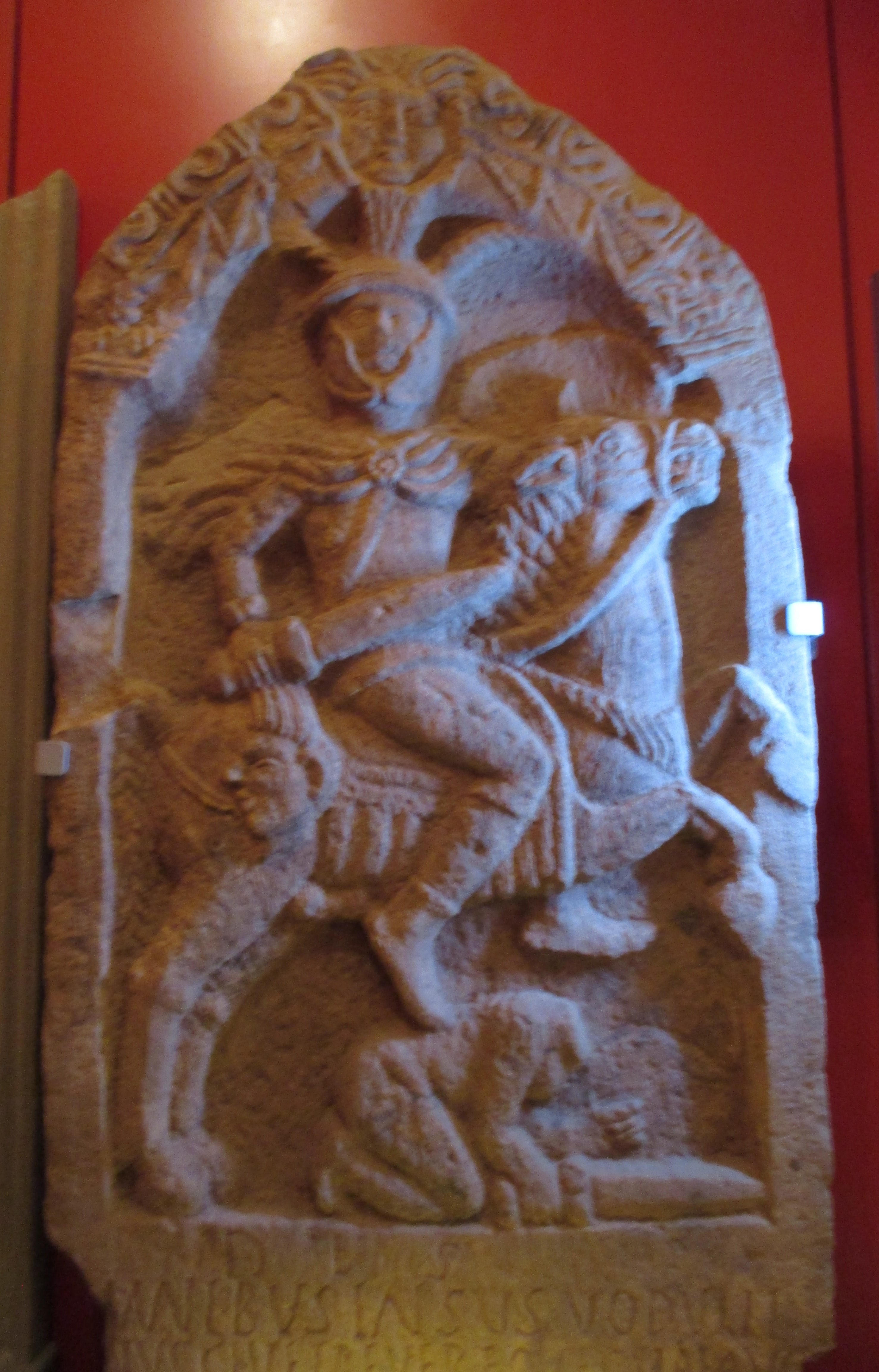 Memorial to a Roman cavalryman, Insus son of Vodullus. It has been dated to c. 100 AD. It was excavated in 2005 on Aldcliffe Road, Lancaster, Lancashire, and is now displayed in Lancaster Museum.